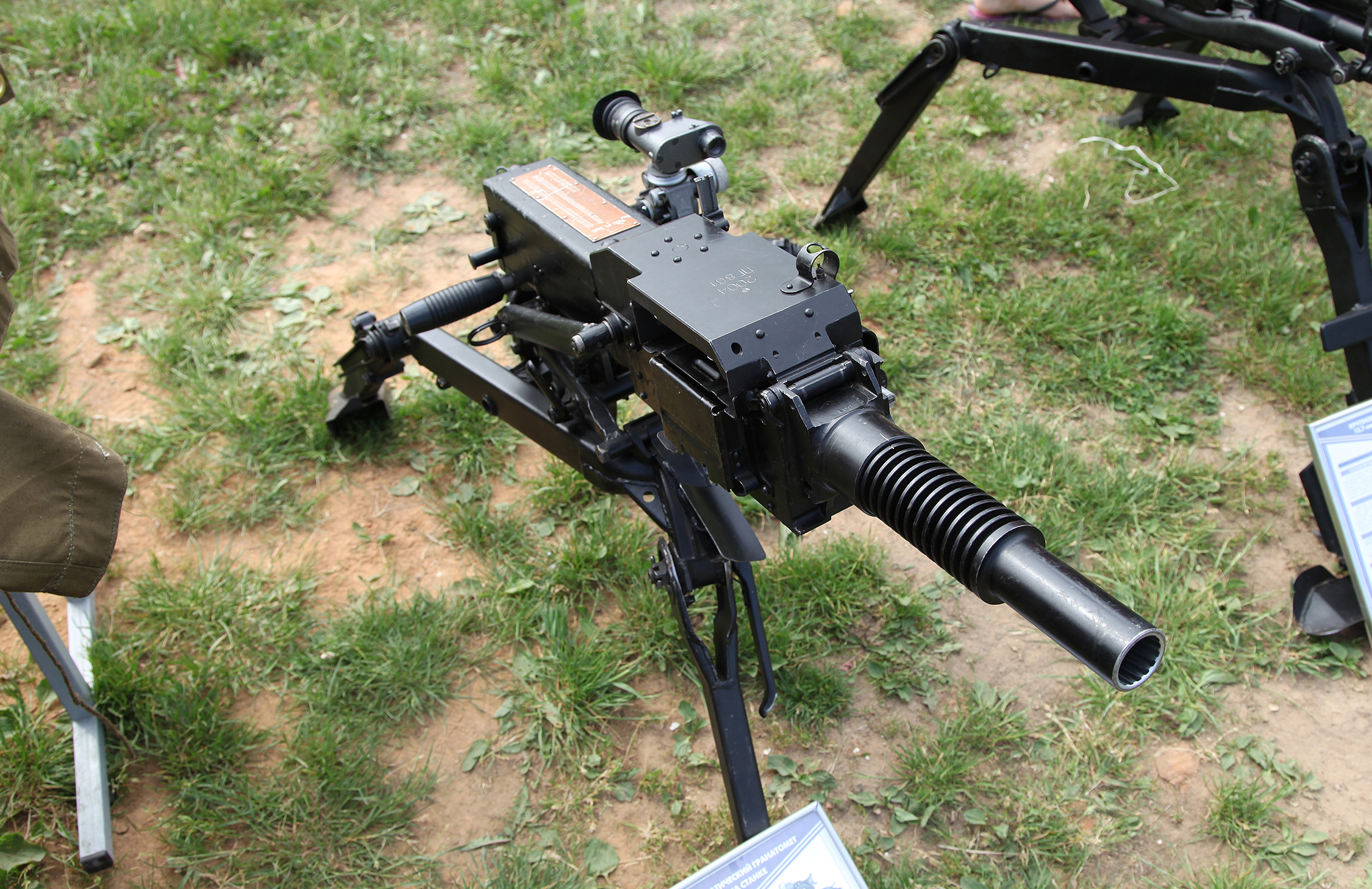 AGS-17 grenade launcher